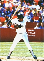 A baseball card of the San Francisco Giants' second baseman Manny Trillo from the 1985 Mother's Cookies San Francisco Giants trading cards set. The card is numbered #5 in the set.